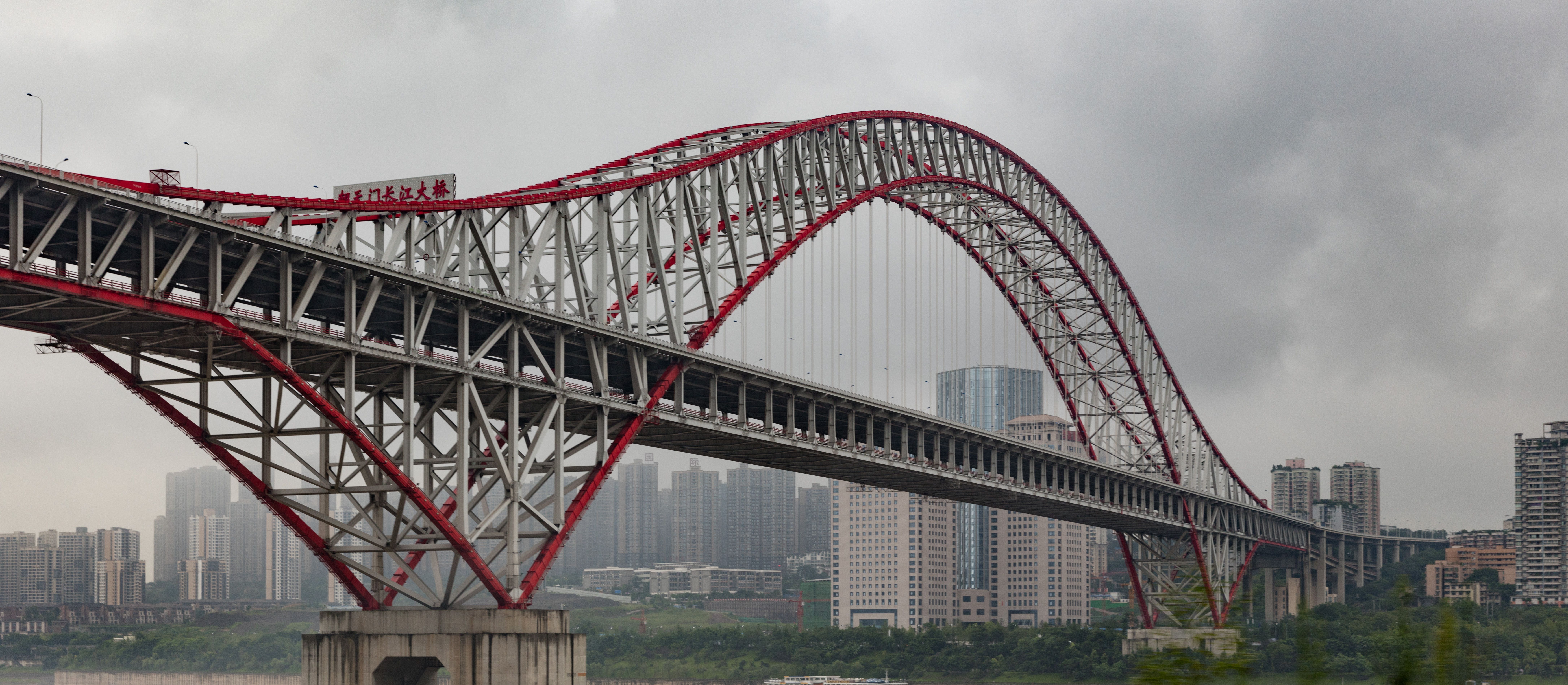 The Chaotianmen Bridge (simplified